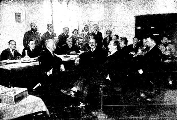 Jewish Parliamentary Club of II Polish Republic